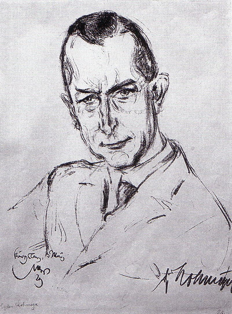 Drawing of Hans Lohmeyer, Oberbürgermeister in Königsberg. Hans Lohmeyer (* 23 June 1881 in Torun, † February 28th 1968 in Berlin) was a Prussian lawyer and administrative officials.